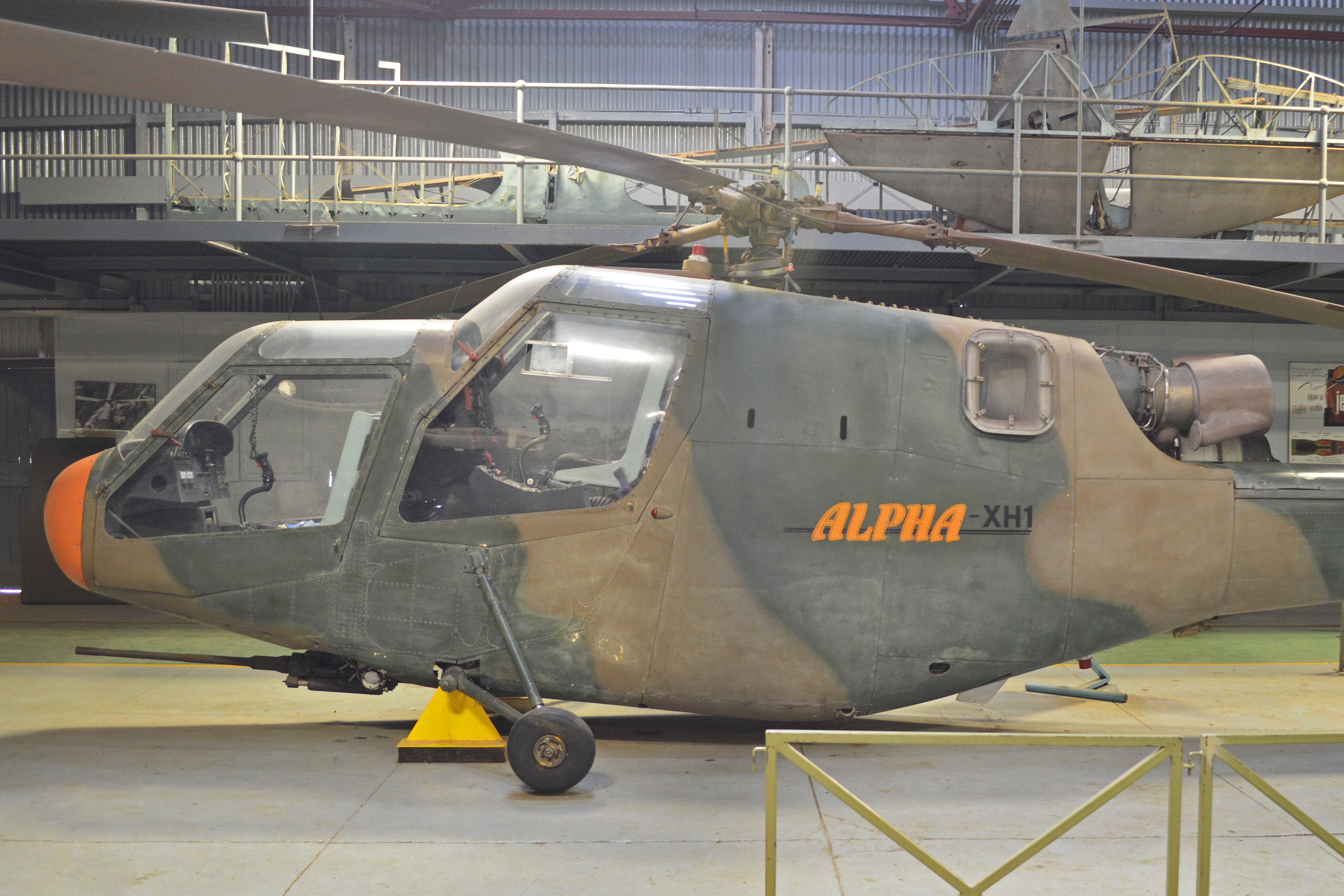 c/n 001. A Prototype attack helicopter design, the XH-1 used mechanical components etc from an Alouette III. It was used as a concept demonstrator for the Rooivalk, which was developed from the later XH-2 and later went into limited production. The original XH-1 has survived and is now on display in Hangar 1 at the South African Air Force Museum. Swartkop Airfield, Pretoria, South Africa. 19-9-2014